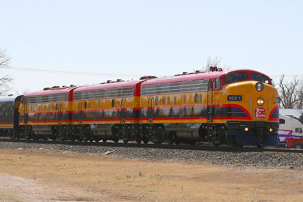 The locomotives of the KCS Business train KCS 1/KCS 2 EMD FP9A and the Pittsburgh EMD F9 B-UnitKCS 1/PITTSBURG B UNIT/KCS 2